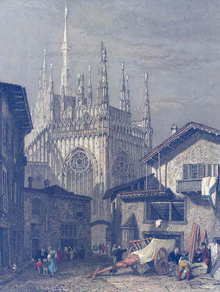 James Carter (engraver) - Apse of the Cathedral in Milan, Italy. From a drawing by Clarkson Stanfield (1793-1867).